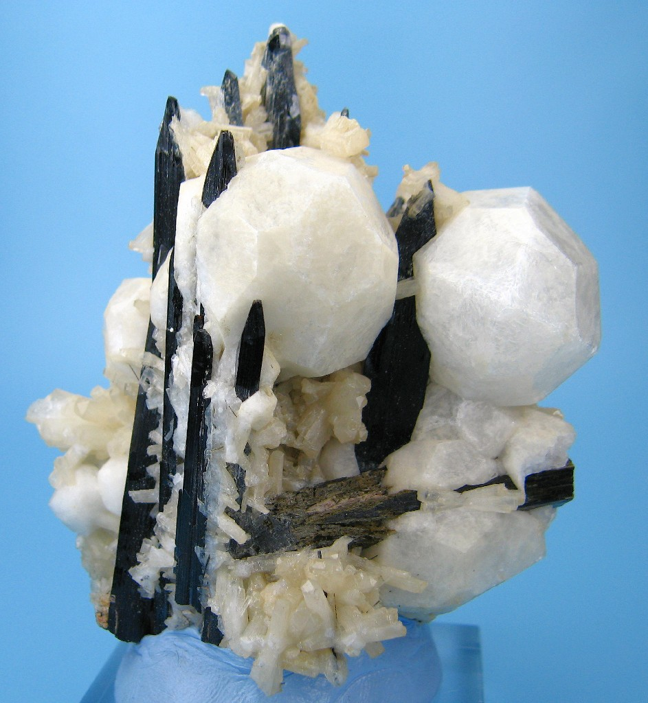 Analcime, Aegirine, Natrolite Locality: Mont Saint-Hilaire, Rouville RCM, Montérégie, Québec, Canada Original description: Colorless sharply formed undamaged crystals of analcime to 25 mm in diameter on a 78 mm x 65 mm x 53 mm matrix. They are associated with numerous black prismatic terminated crystals of aegirine, as well as smaller colorless prismatic terminated crystals of natrolite, these from 3 mm to 10 mm in length. Ex Joan Massagué collection.